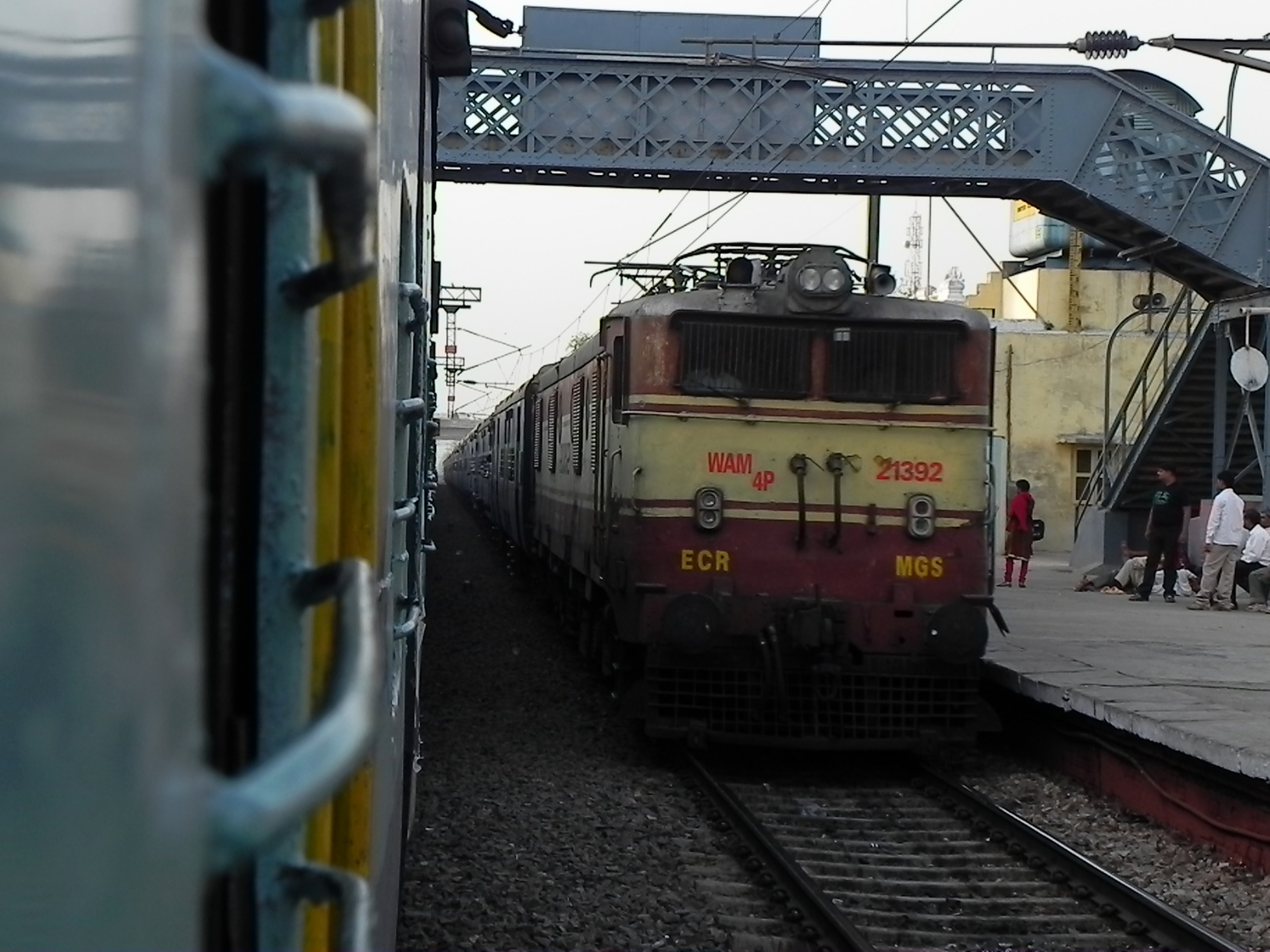 MGS based WAM-4P loco with Gaya bound 12398 (NDLS-GAYA) Mahabodhi Express at Mendu, Uttar Pradesh